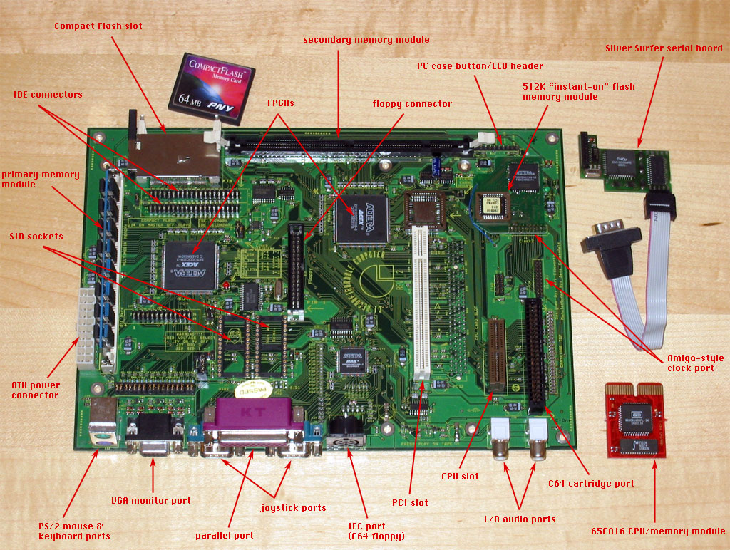 C-One motherboard explained.